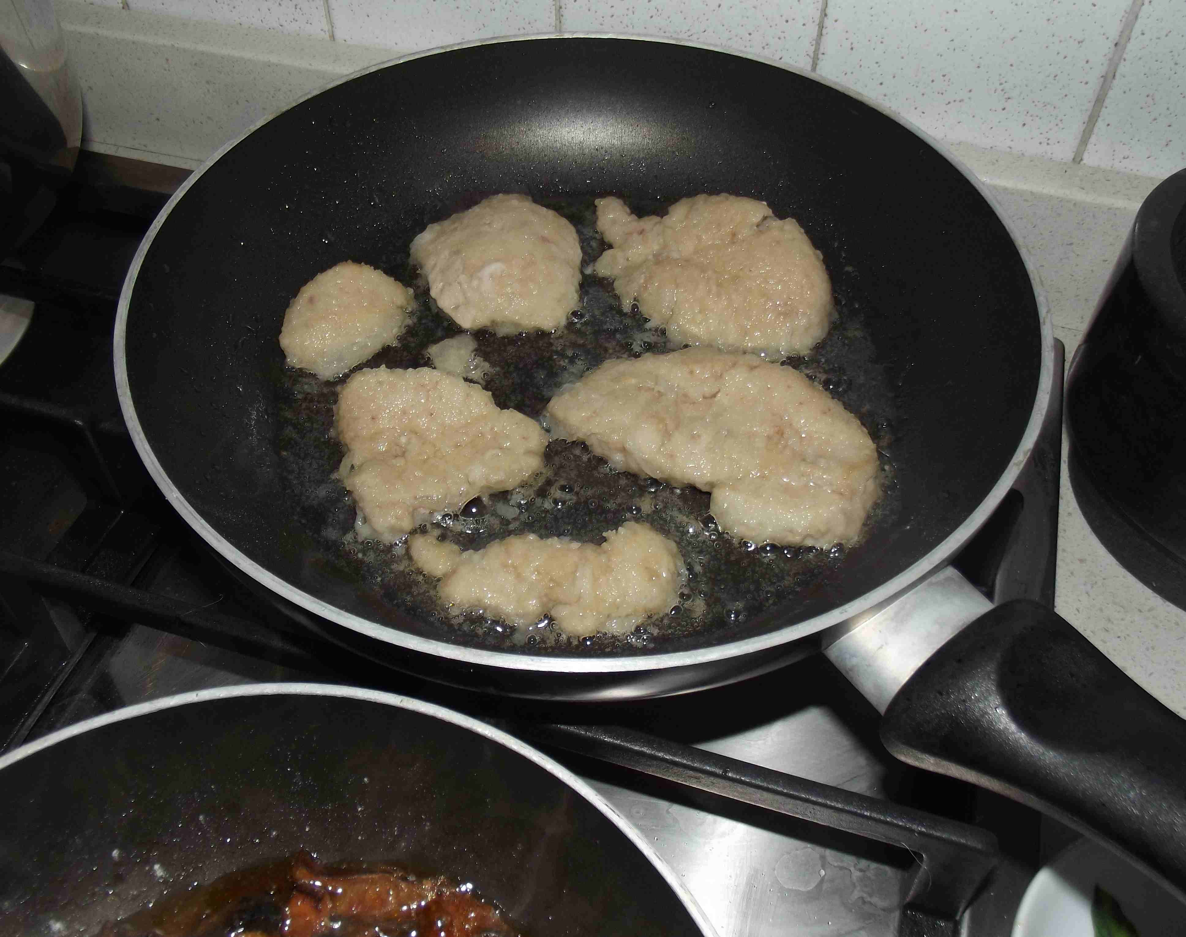 Sliced calf testicles